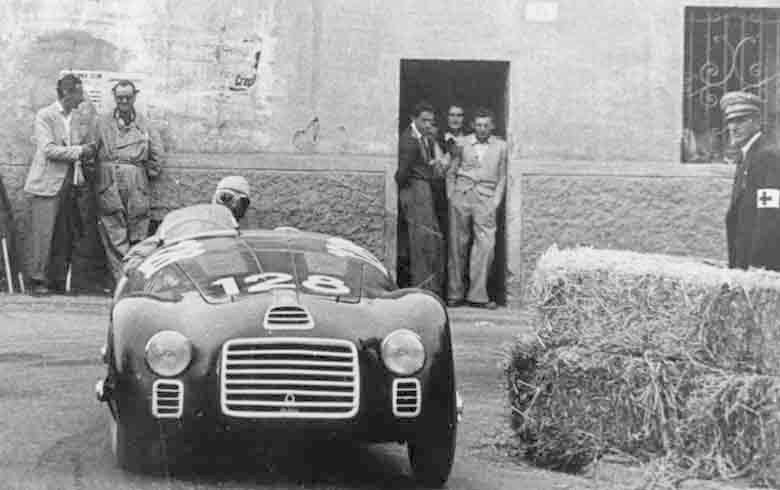 Franco Cortese driving a Ferrari 125 Spyder #128 on Circuito di Piacenza on May 11, 1947. He did not finish (DNF).[1] This is chassis #01C (one of the first Ferraris made).[2][3]